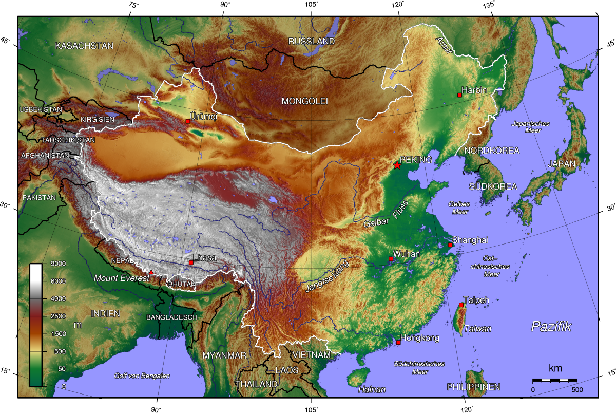 China topography